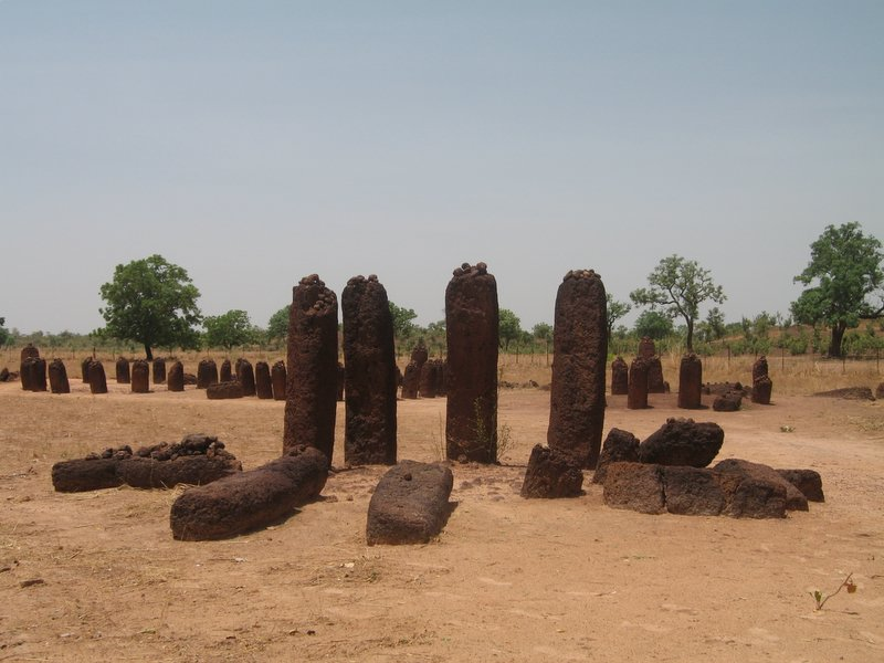 Wassu Stone Cirles